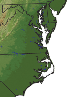 Painted relief map of the Tidewater region on the eastern coast of the United States in darkest green to one shade lighter green to the west. It includes the state of Delaware, the Delmarva Peninsula, Chesapeake Bay area of south Maryland, DC, and east Virgina and North Carolina.